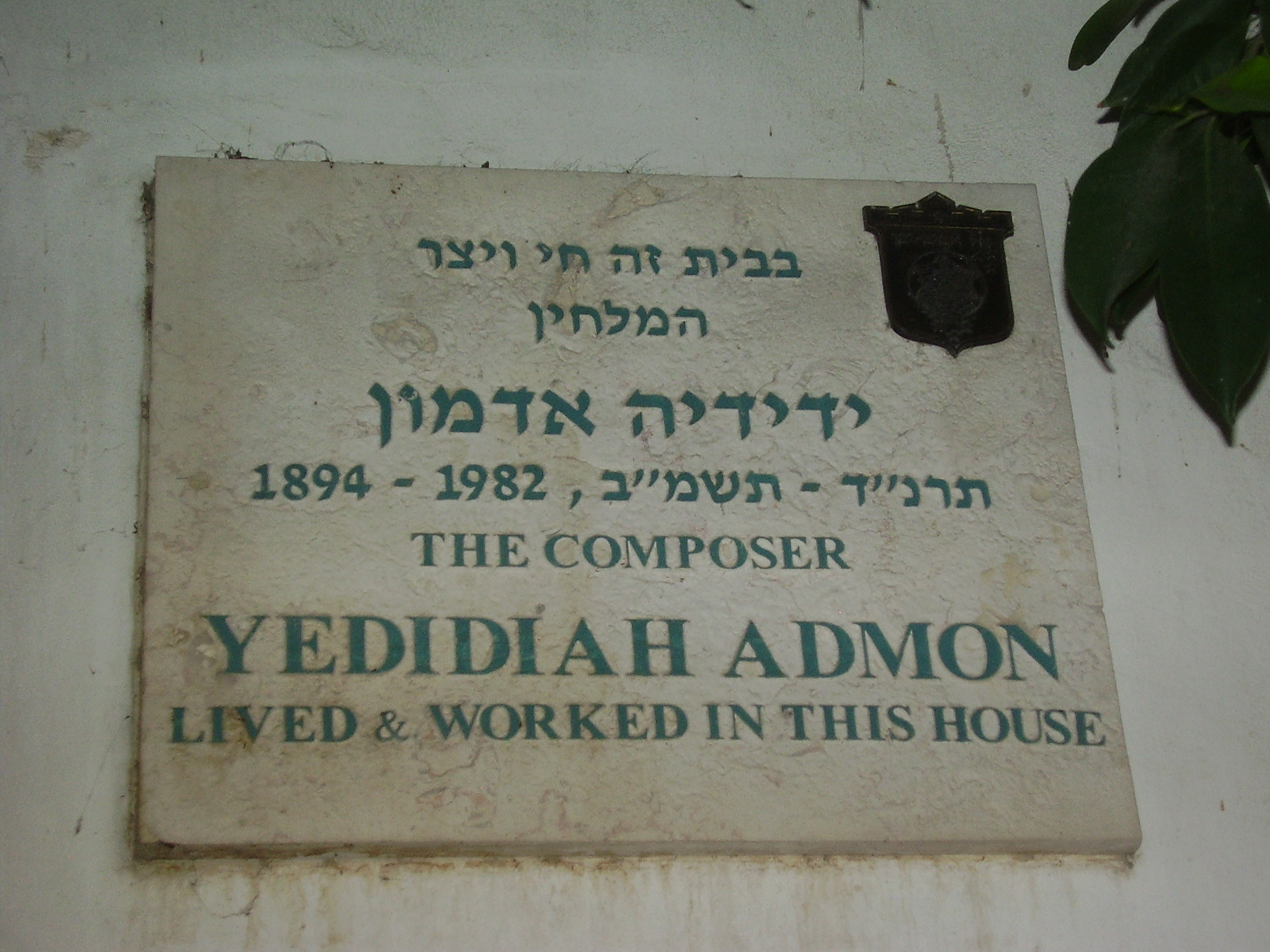 memorial plate to the composer yedidiah admon in tel aviv לוחית זיכרון על ביתו של המלחין ידידיה אדמון ברח' מהר"ל 6 בתל אביב